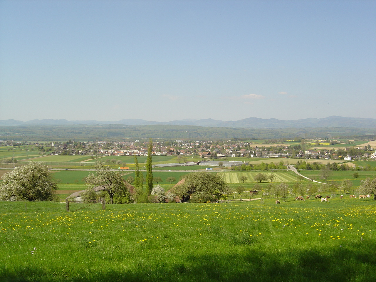 View over the "Möhliner Feld" (Field of Möhlin) and Möhlin. In the background the "Schwarzwald" (Black Forest). Line of sight: north